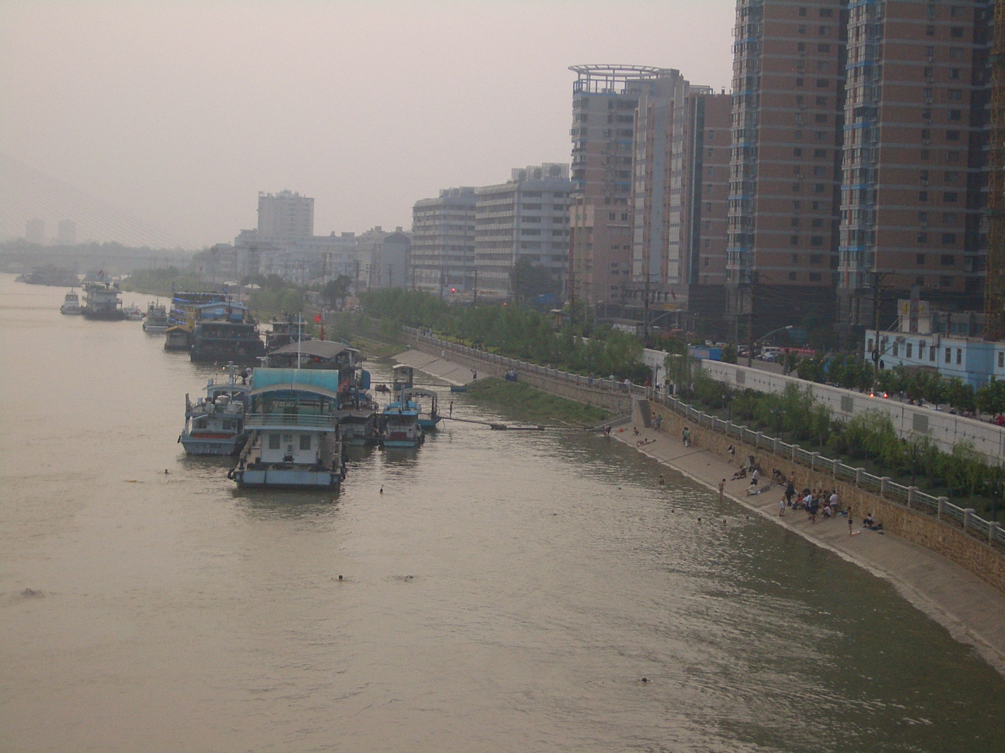 The Han River (Hanjiang, or Hanshui) in Wuhan